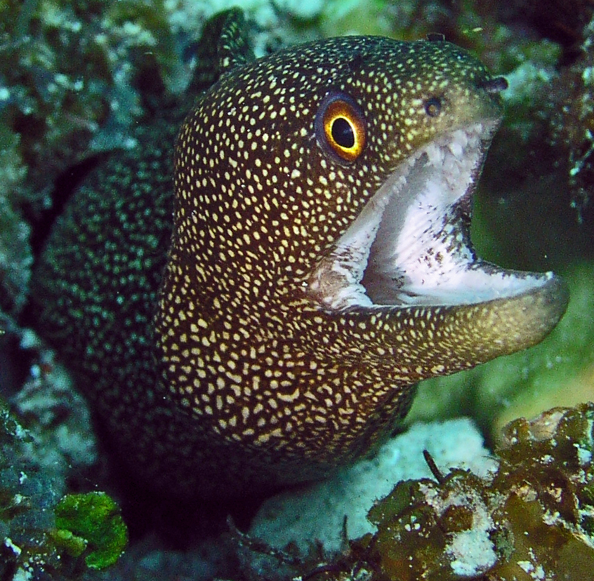 Gymnothorax meleagris